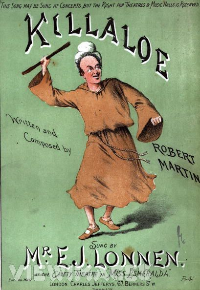 Sheet music from "Killaloe", 1890, sung by E. J. Lonnen